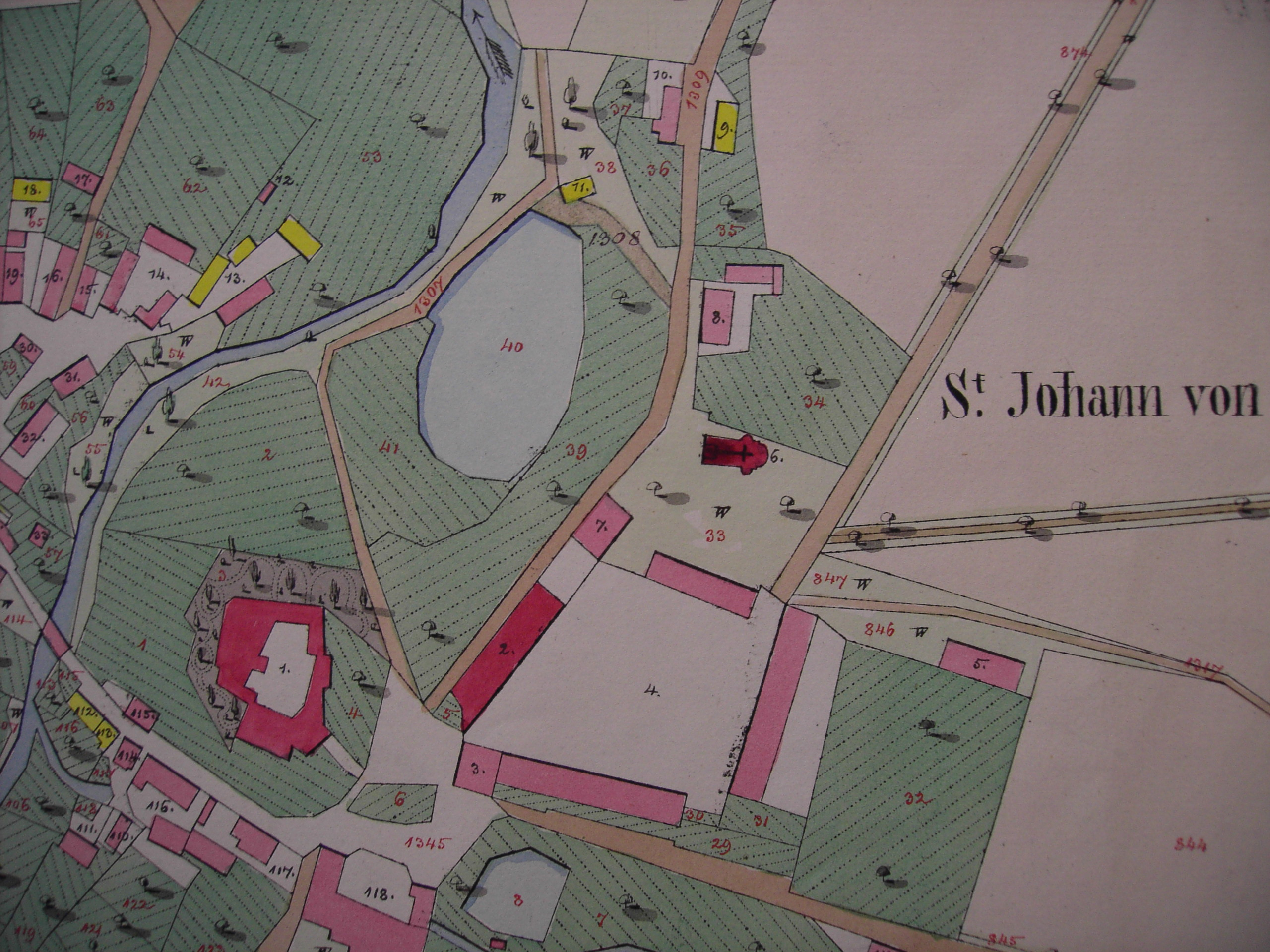 Land registry CZ